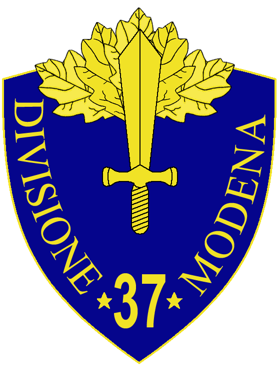 37a Divisione Fanteria Modena insignia, Regio Esercito, Italy, WWII